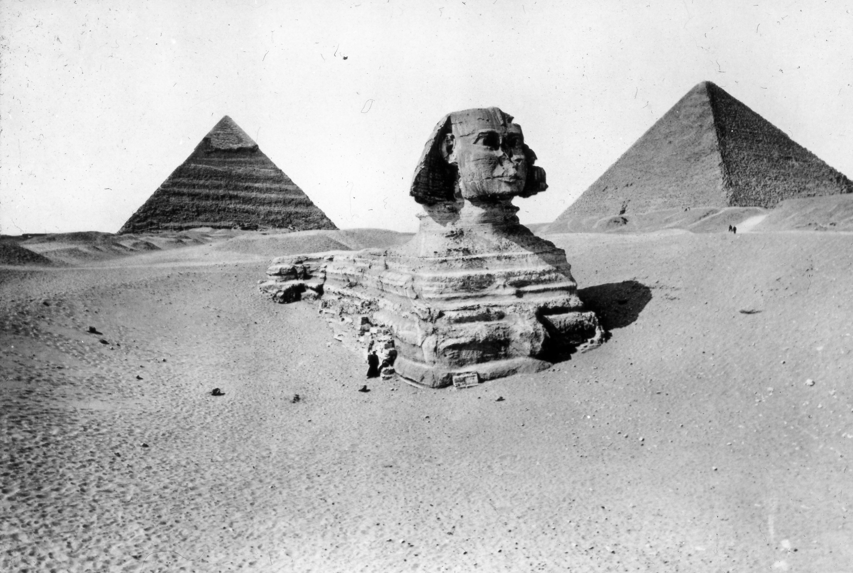 Lantern Slide Collection: Views, Objects: Egypt. Gizeh [selected images]. View 01: Great Sphinx Before Clearance. Giza. 4th Dynasty., n.d. Brooklyn Museum Archives (S10|08 Gizeh, image 9609).